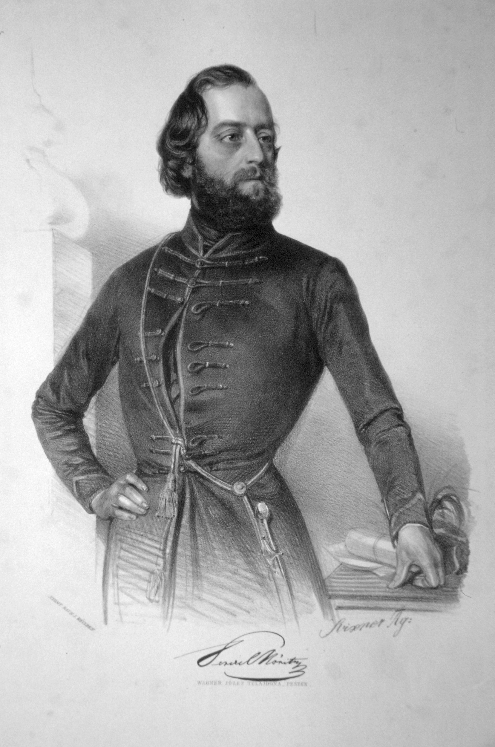 Moritz Perczel (1811-1899), Hungarian Revolution General Lithograph by August Strixner,, about 1848